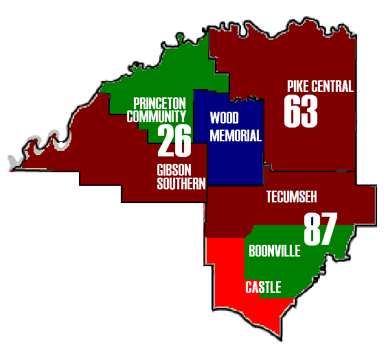 The Schools and districts of the Gibson-Pike-Warrick Special Education Cooperative.